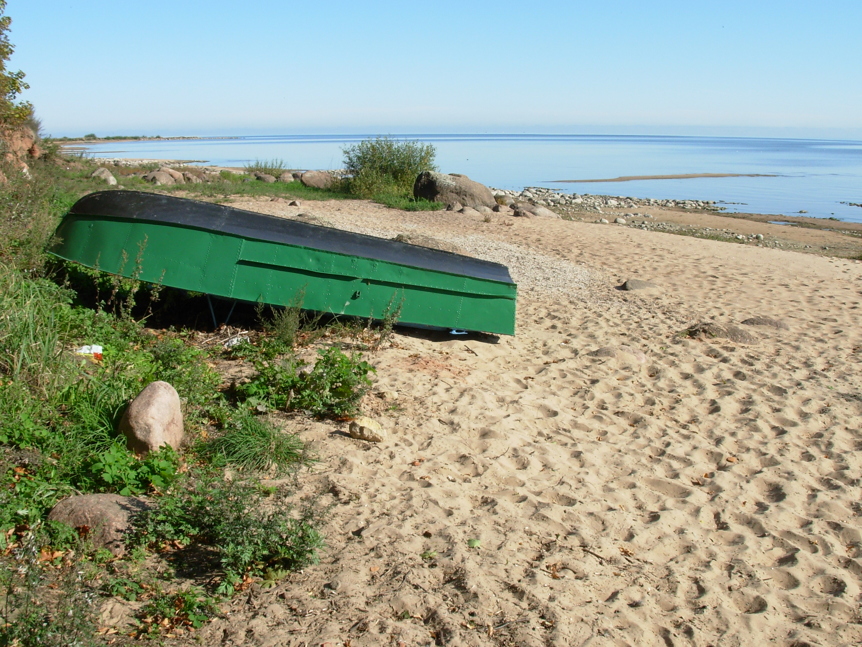 Description: Peipsi Lake - Kallaste Photographer: Alessandra Rovati